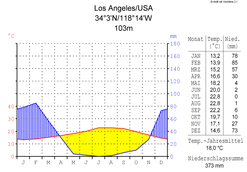 climate chart in the format by Walther and Lieth, metric, °Celsisus and millimeters, made with Geoklima 2.1